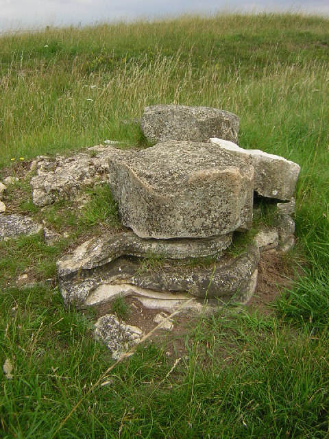 Bardney Abbey Scant remains of the once great Bardney Abbey. This column base was once part of a church 236 feet long with a nine-bay arcaded nave.